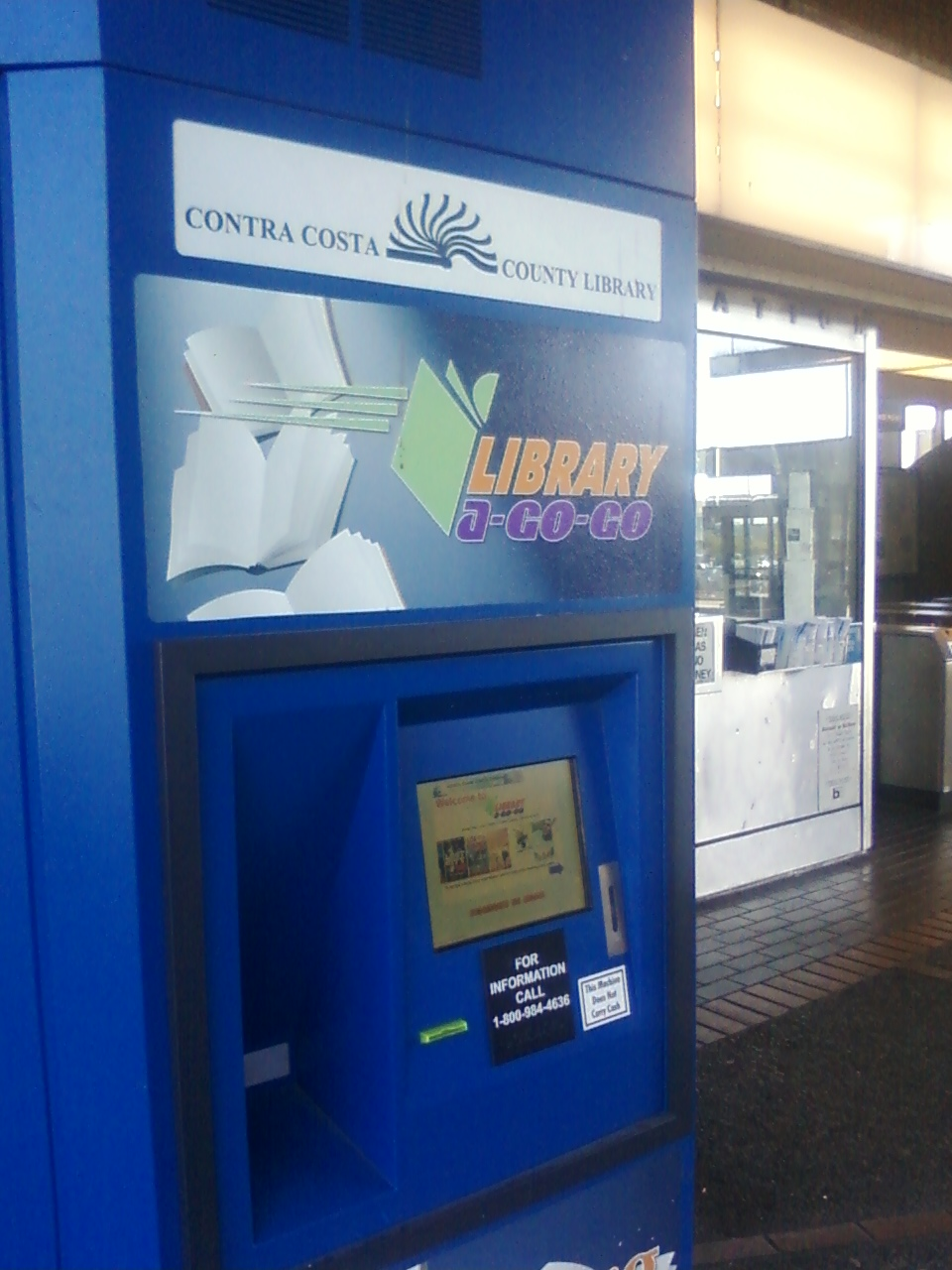 A picture of a GoLibrary machine branded as a Library-A-Go-Go machine of the :Contra Costa County Library at El Cerrito del Norte Bay Area Rapid Transit (BART) station.